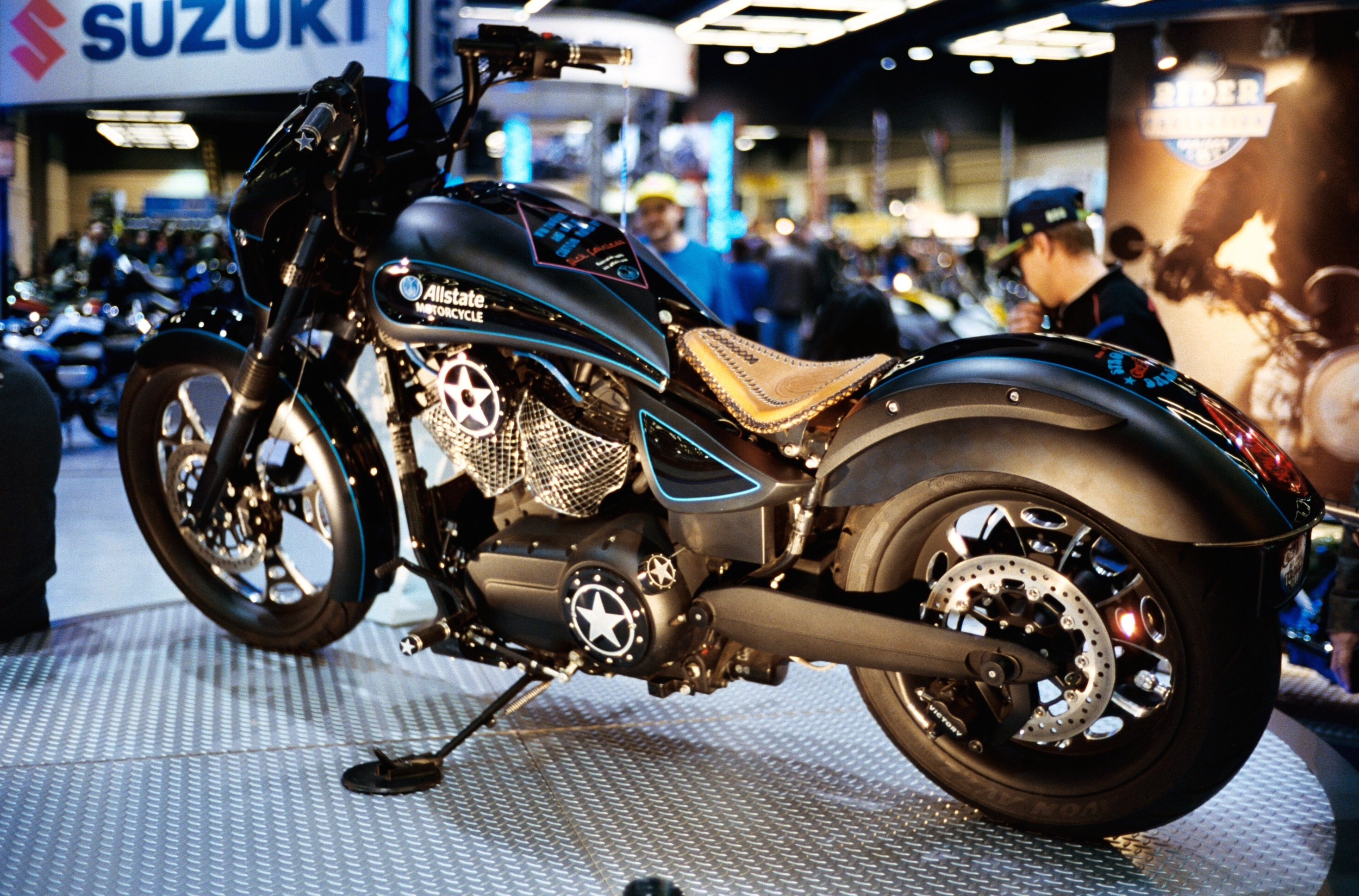 2014 Victory customized by Rick Fairless at the 2014–2015 Seattle International Motorcycle Show in the Washington State Convention Center